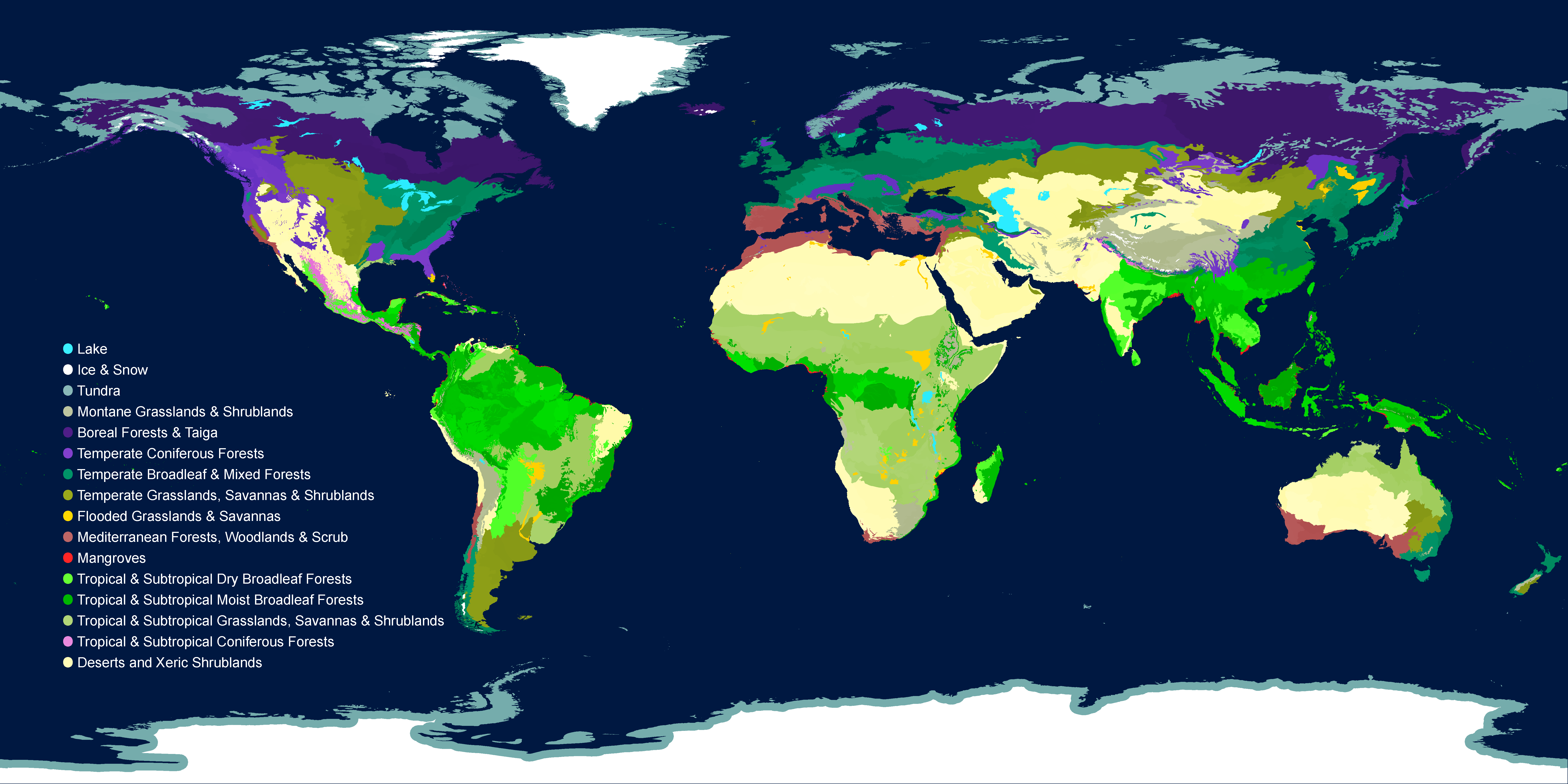 Global 200 ecoregions by World Wide Fund for Nature